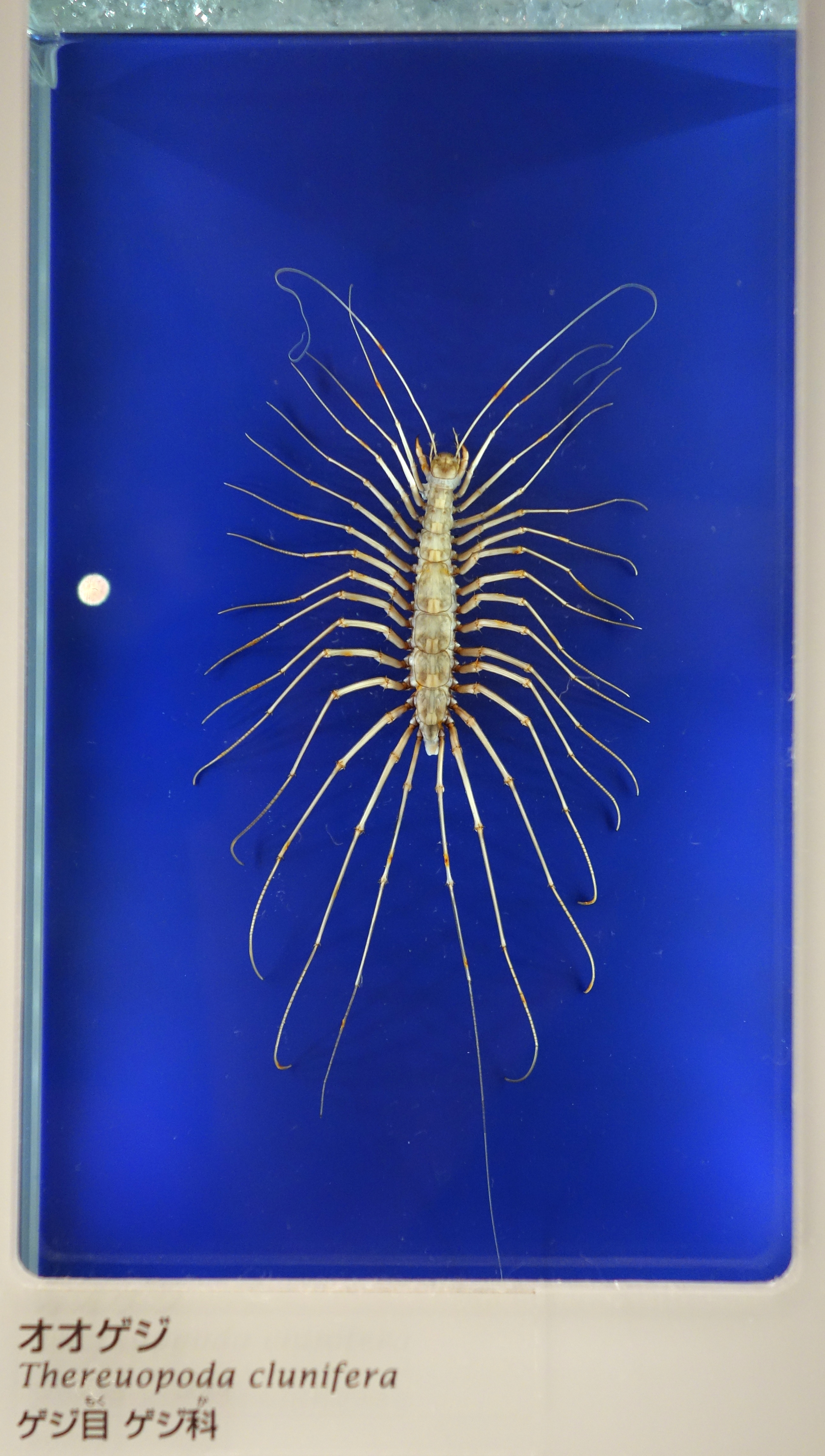 Exhibit in the National Museum of Nature and Science, Tokyo, Japan.